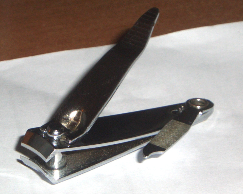 Tripy. 2006. Spain